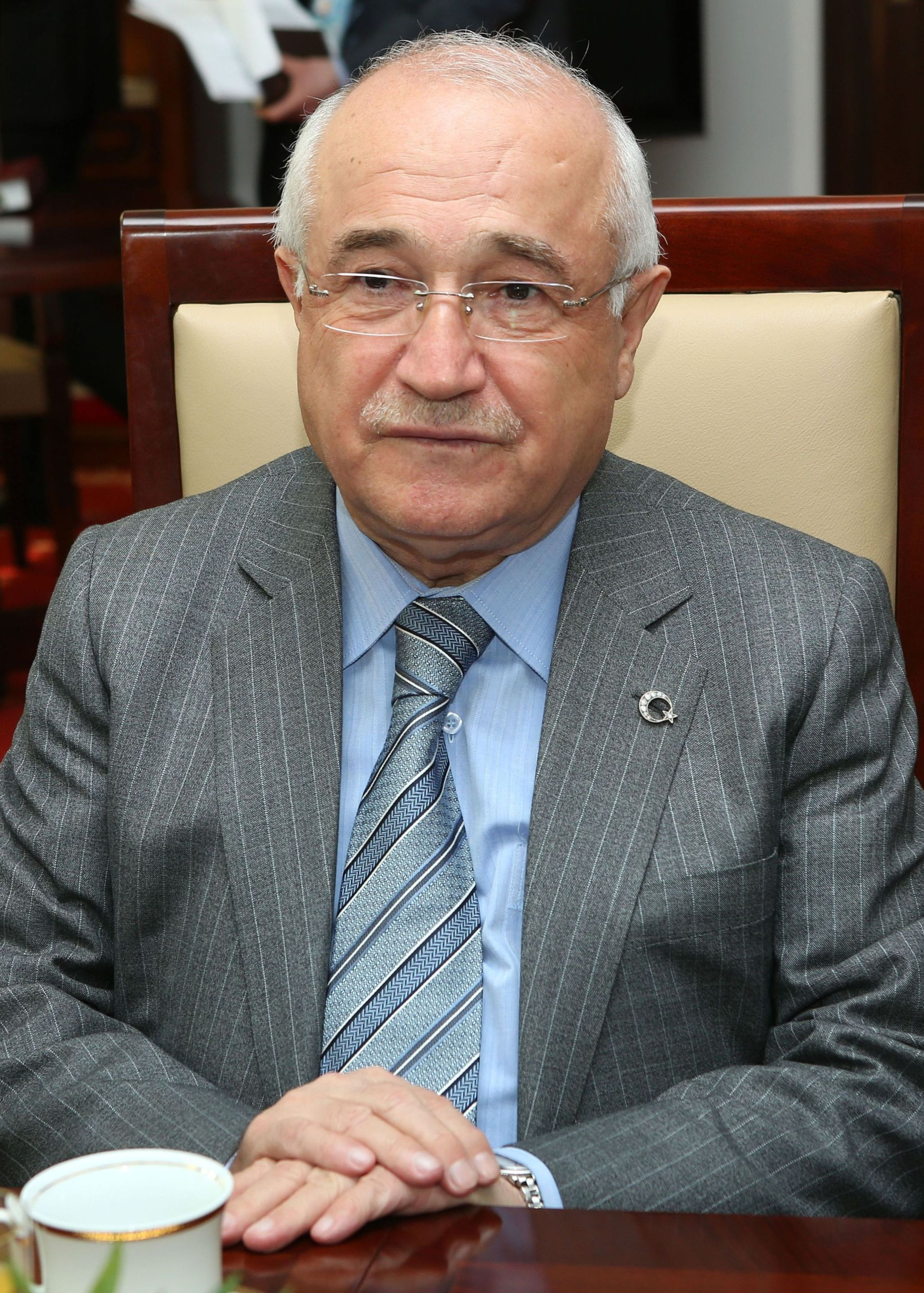 Speaker of the Grand National Assembly of Turkey Cemil Çiçek in the Polish Senate